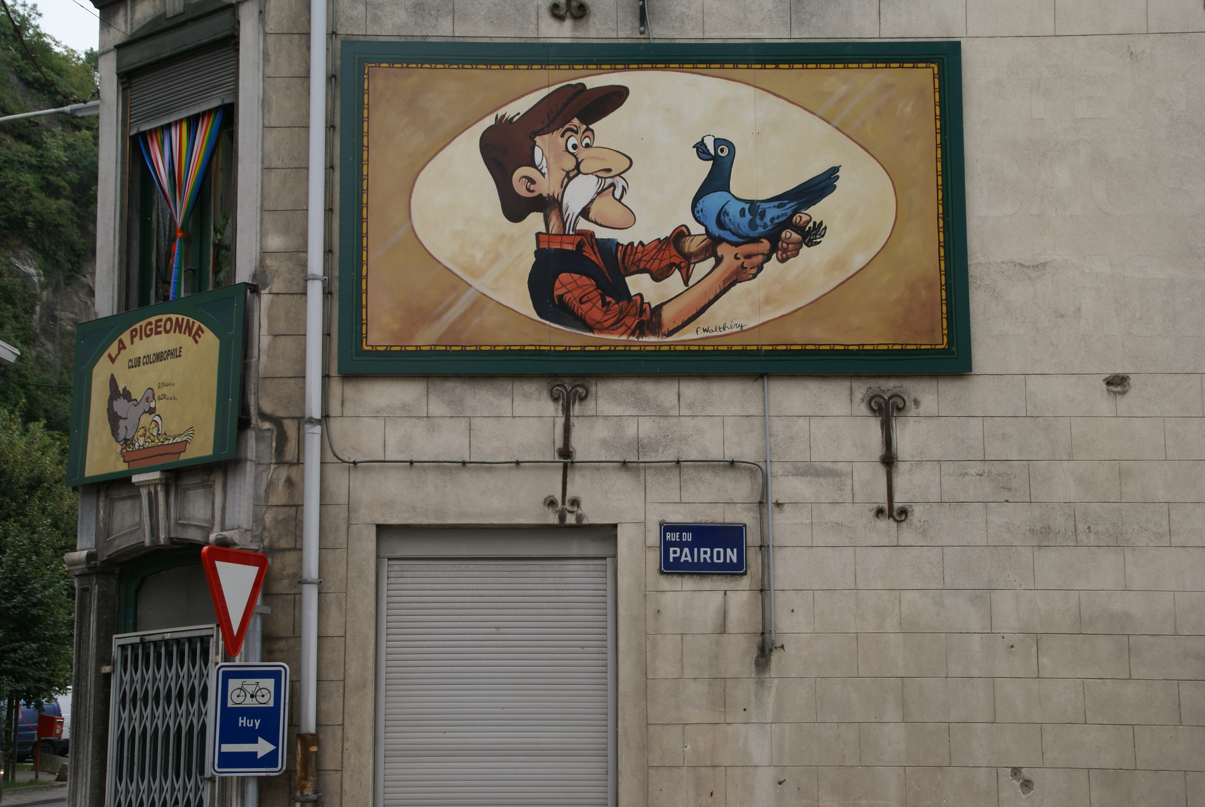 Statte (Belgium): Drawings from François Walthéry on the frontage of the pigeon holders' club La Pigeonne